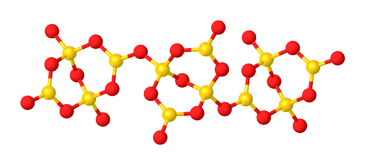 portion of borate backbone in Li2B4O7.